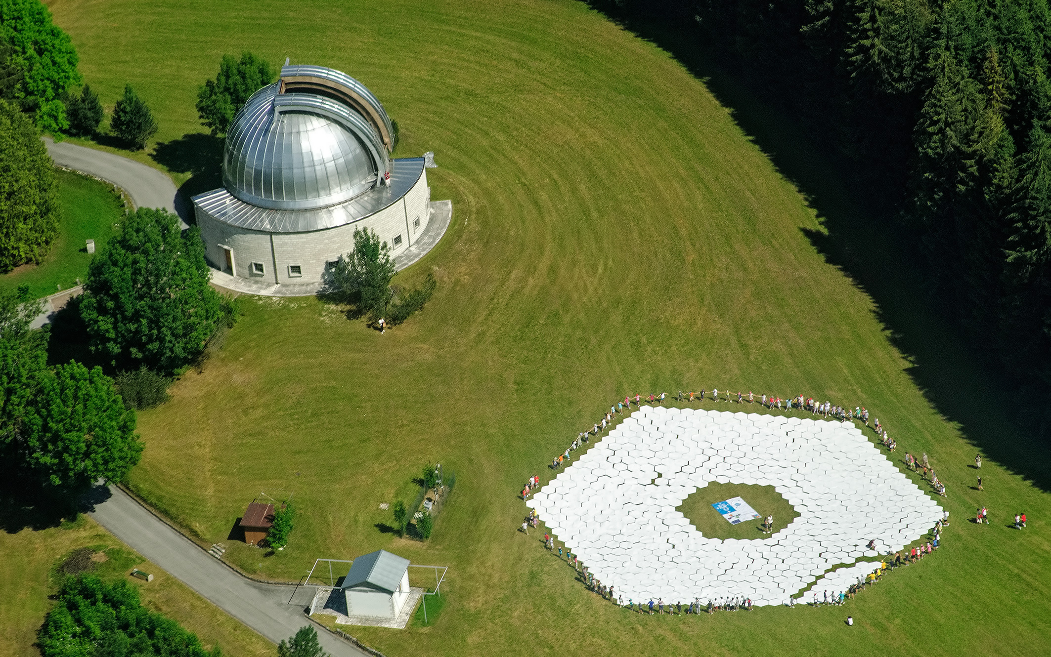 This aerial image shows a 1:1 scale model of the European Extremely Large Telescope's primary mirror, assembled next to the Asiago Astrophysical Observatory near Asiago, Italy. The Italian observatory, founded in 1942, is dwarfed by the gargantuan E-ELT mirror… in fact, you could fit the entire Asiago building inside the footprint of the E-ELT mirror and still have enough room to swing a proverbial cat (and a big cat too)! Around the edge of the mock-up mirror are the children who volunteered to participate in the task of positioning the 800 1.4-metrecardboard hexagons used to form the 39-metre E-ELT mirror mock-up.